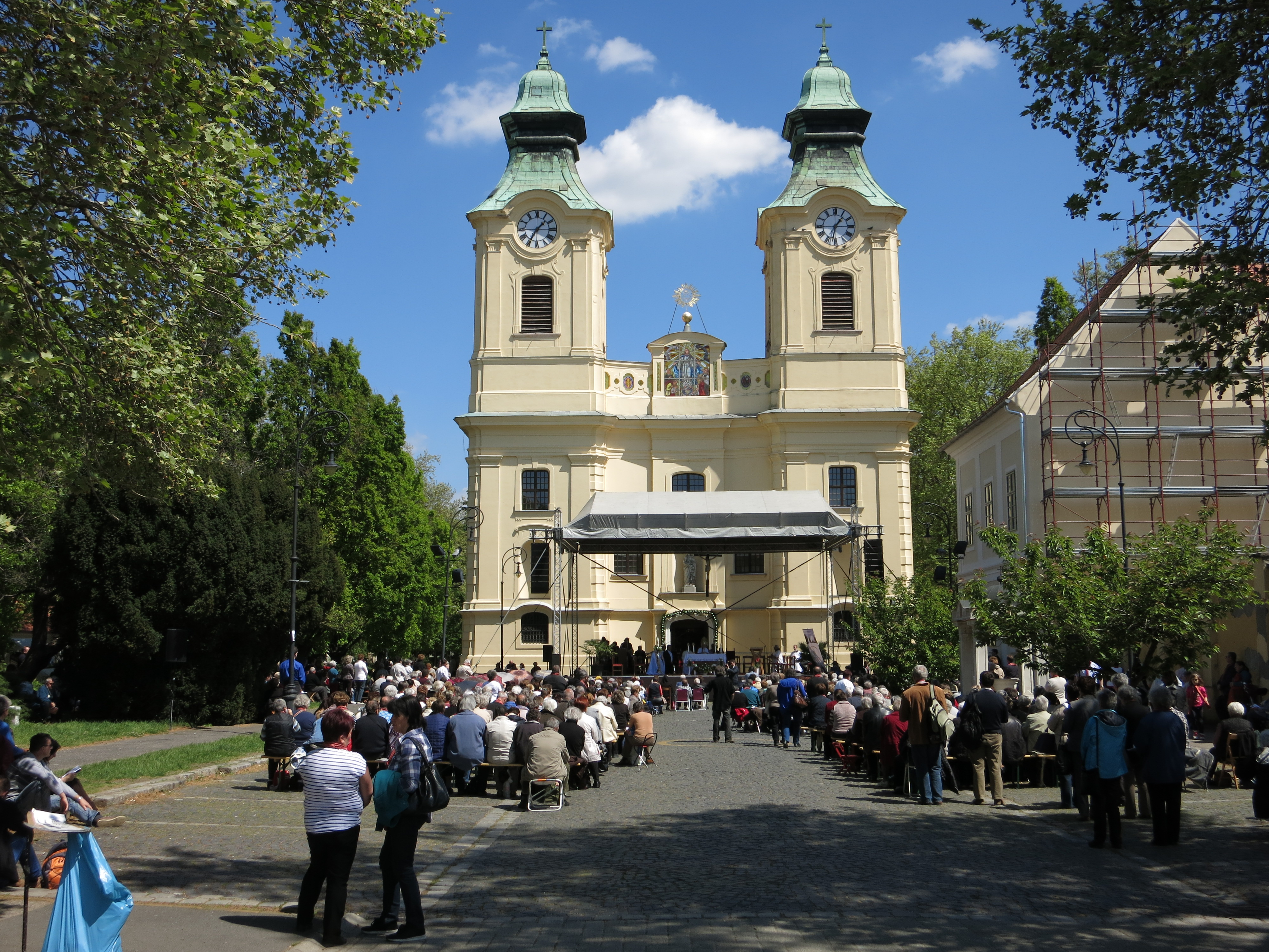 Main Church of Celldömölk, town in Hungary